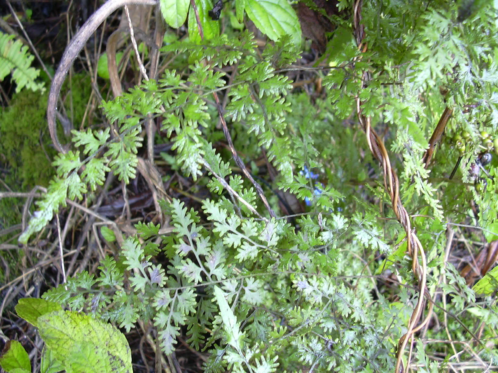 Lygodium japonicum (fertile fronds). Location: Hawaii, Hilo